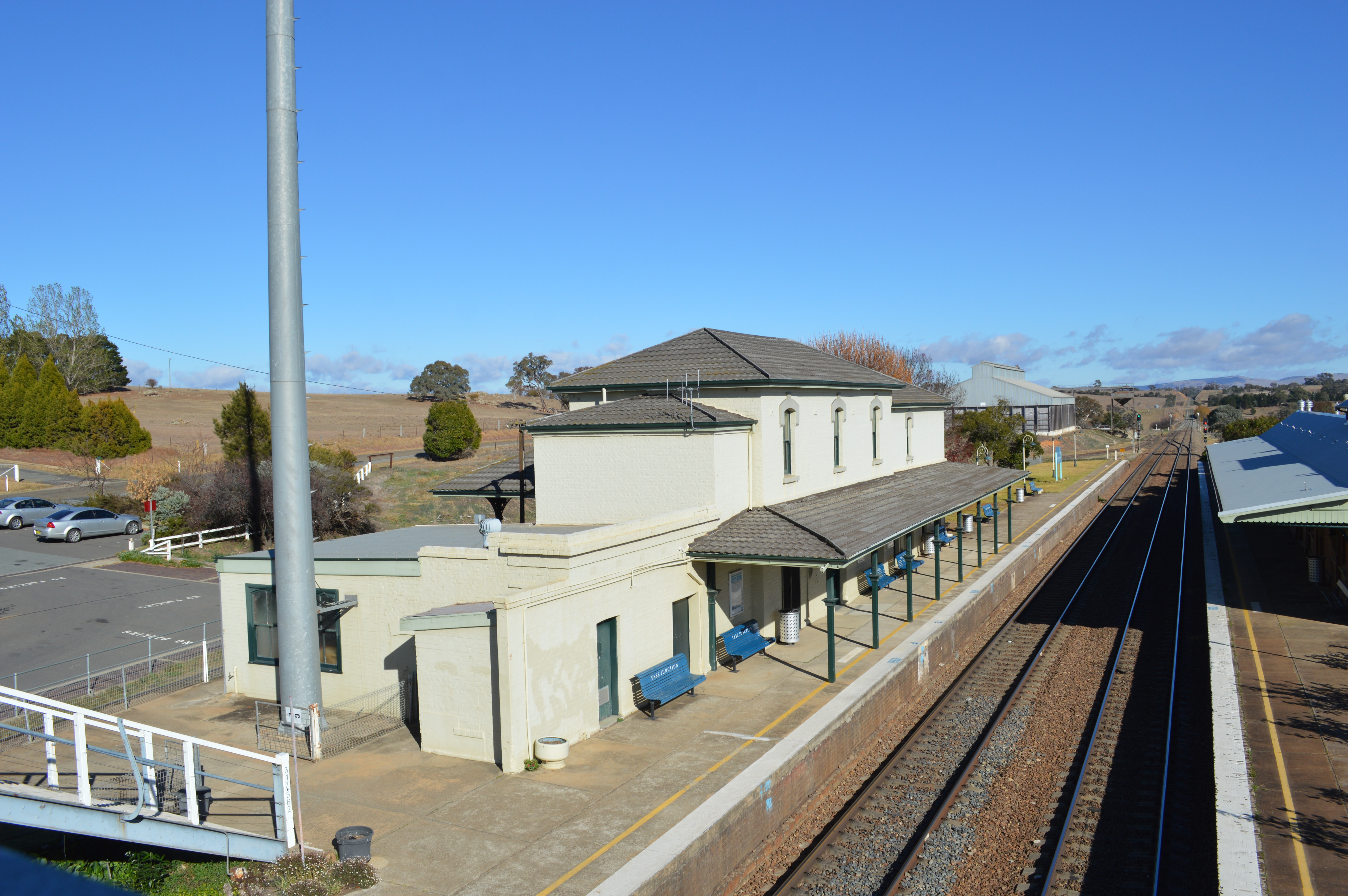 Yass Junction Railway Station at Yass, New South Wales